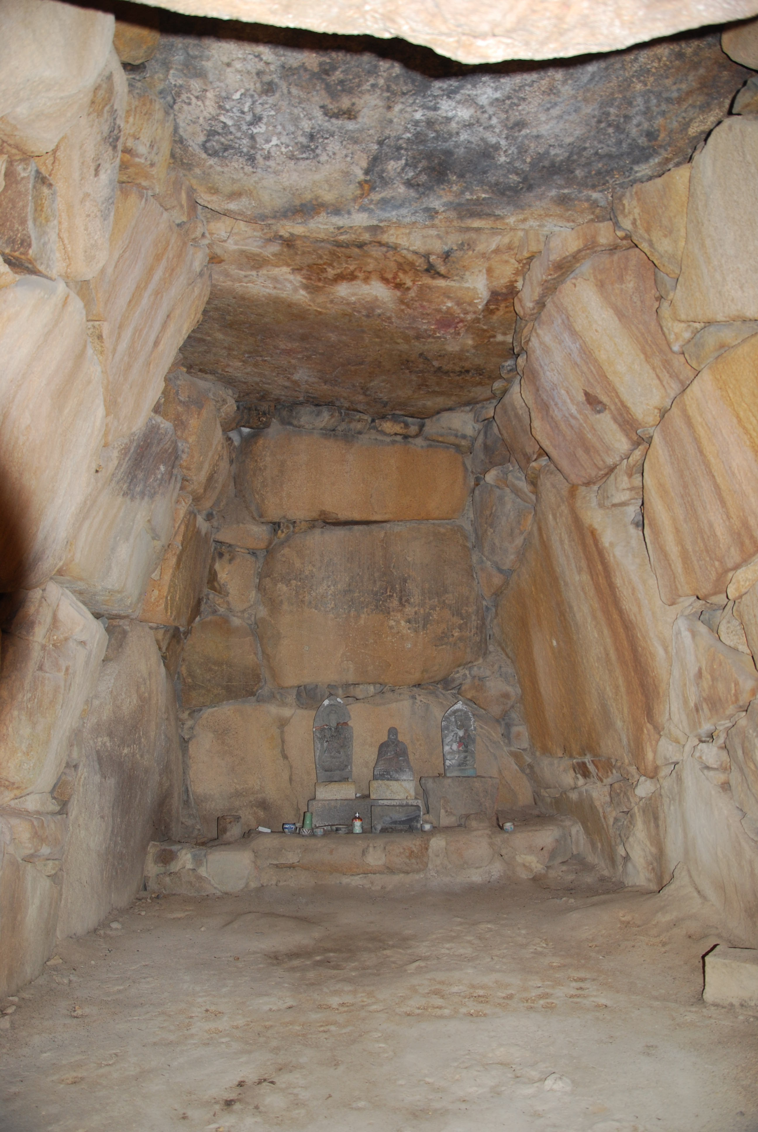 Burial chamber, Sawada Ōtsuka Kofun